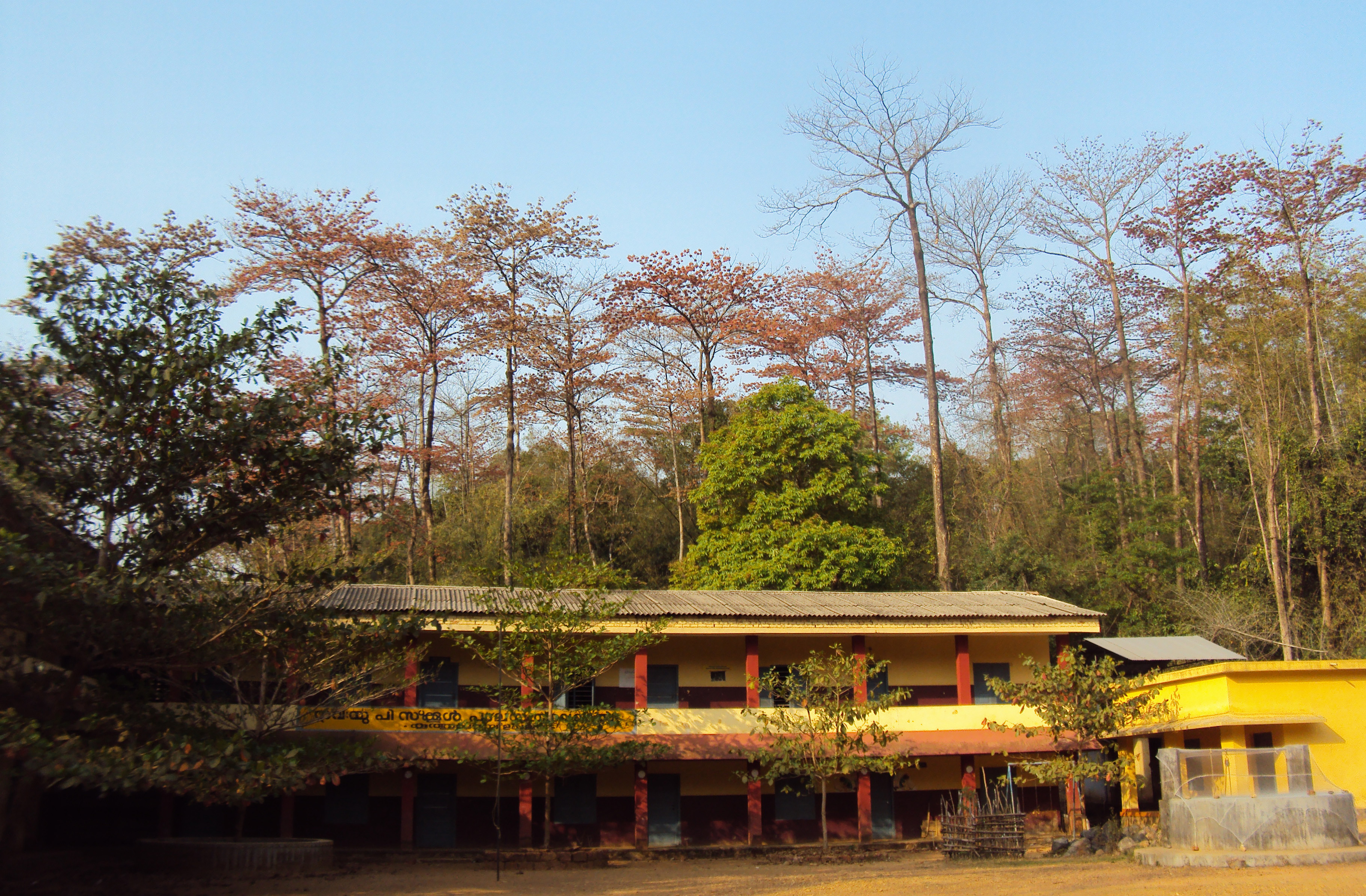 Govt U P School Palayathuvayal, Kannavam, Kannur